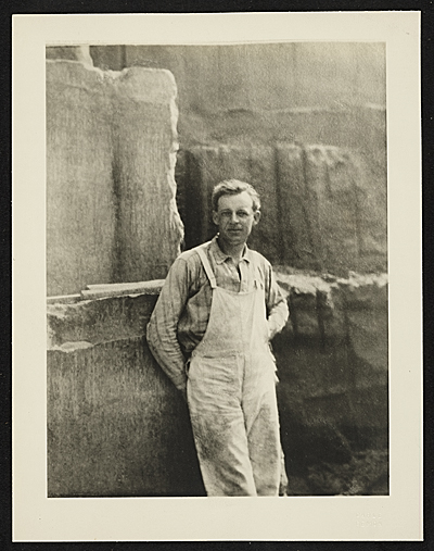 Henry Keller, ca. 1920 / unidentified photographer. Henry G. Keller papers, Archives of American Art, Smithsonian Institution.